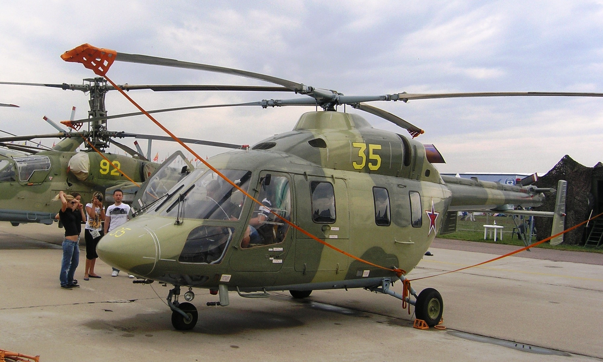 Kazan helicopter at MAKS Airshow 2011.